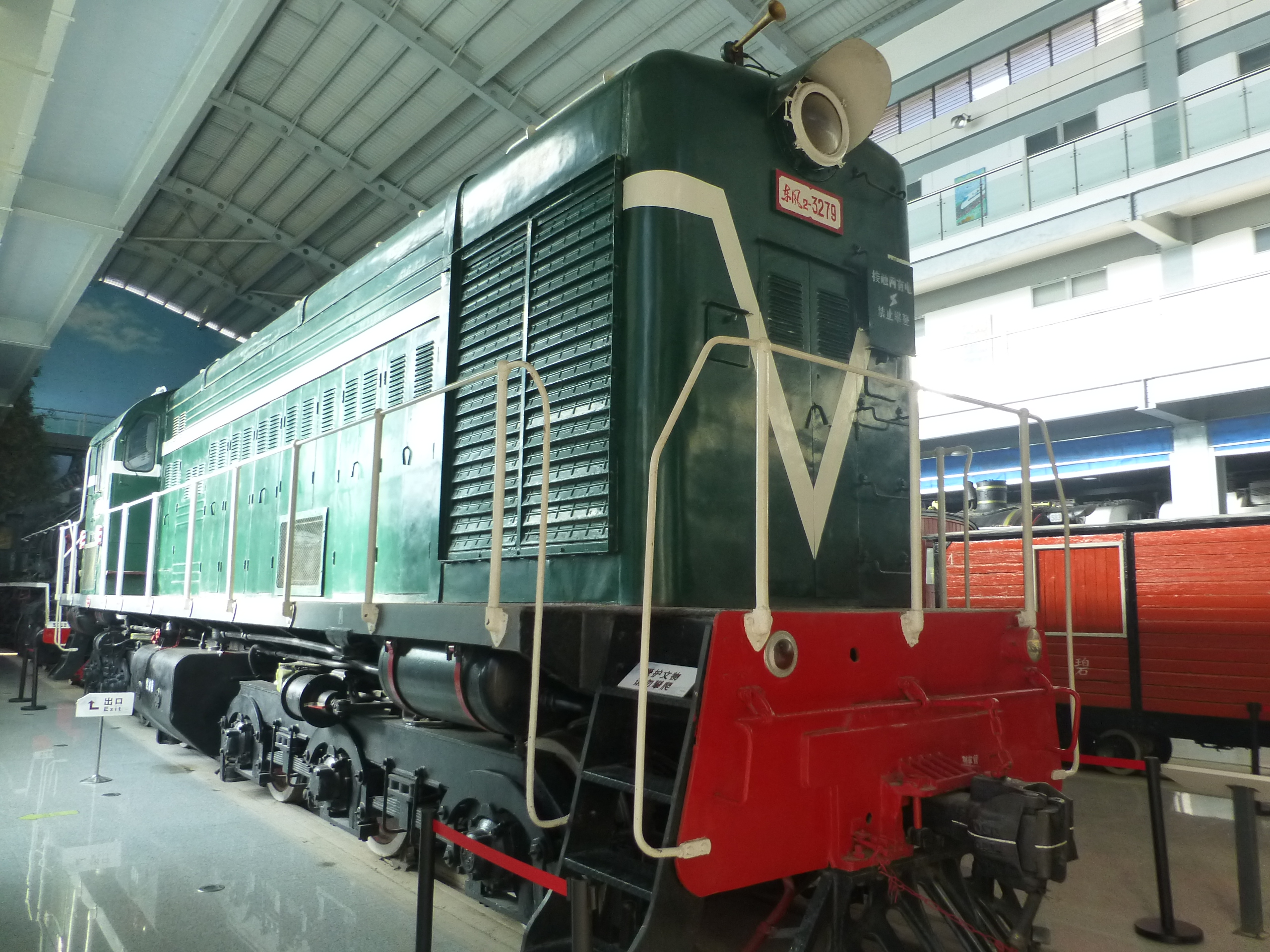 Rolling stock on display in the Yunnan Railway Museum (Kunming North Railway Station)